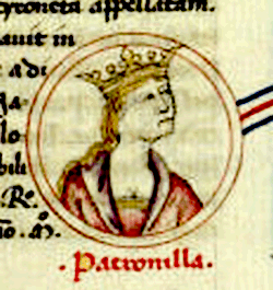 Petronila of Aragon